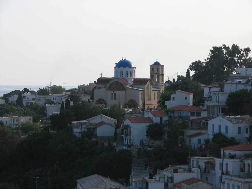 Agios Kirykos (Greek: Άγιος Κήρυκος) is a municipality on the island of Icaria, Samos Prefecture, Greece